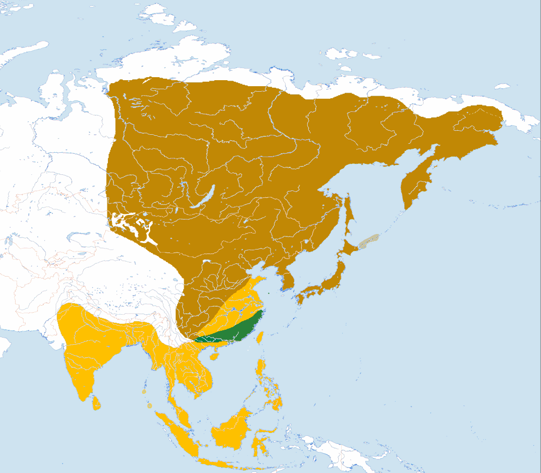 Lanius cristatus: Distribution Map